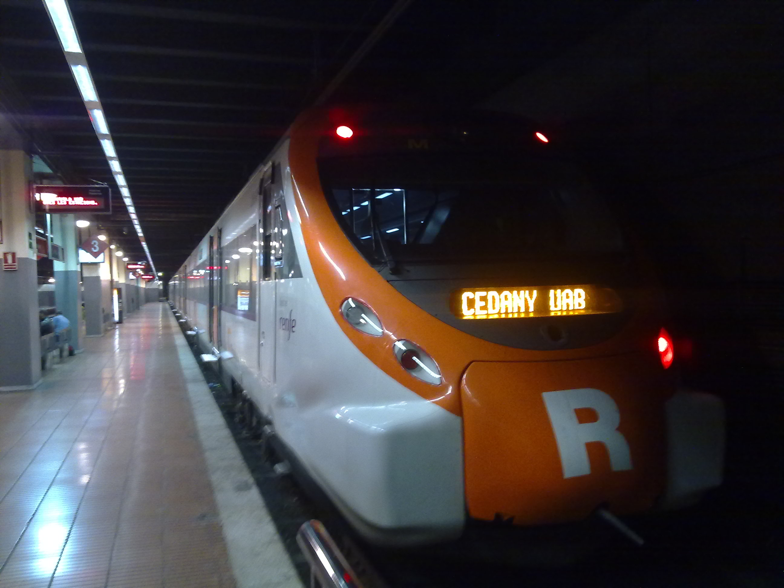 Train in Sant Andreu Arenal station (Barcelona).